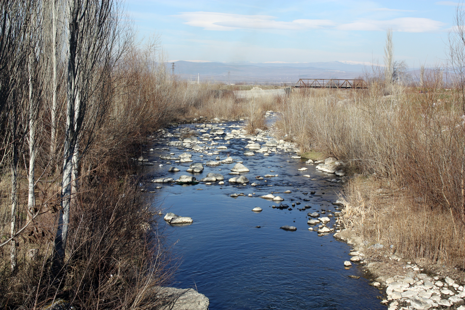 Chepinska river at Vetren Dol